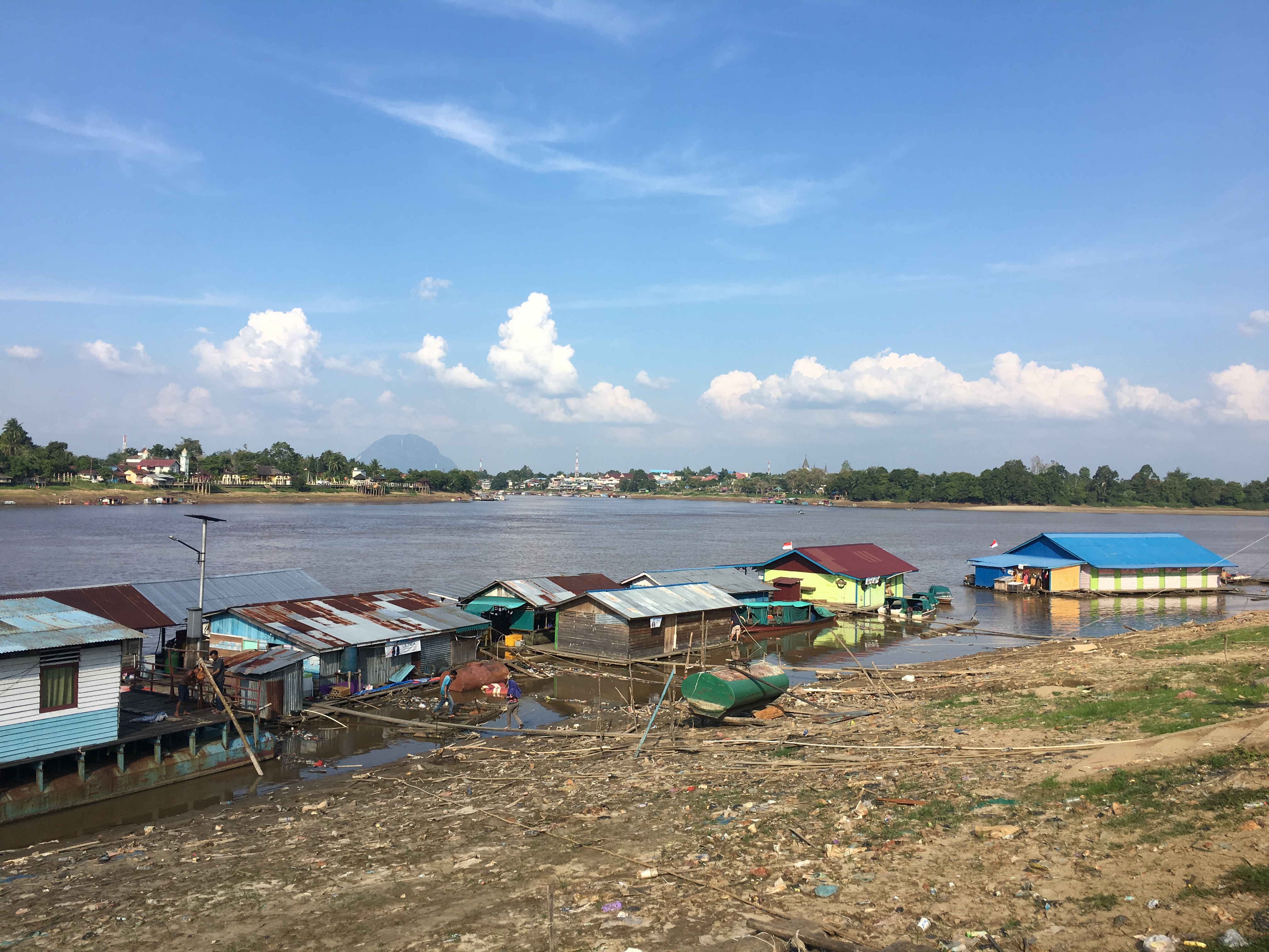 The confluence of Kapuas and Melawi rivers at the town of Sintang, West Kalimantan. In the distance is Mount Kelam.